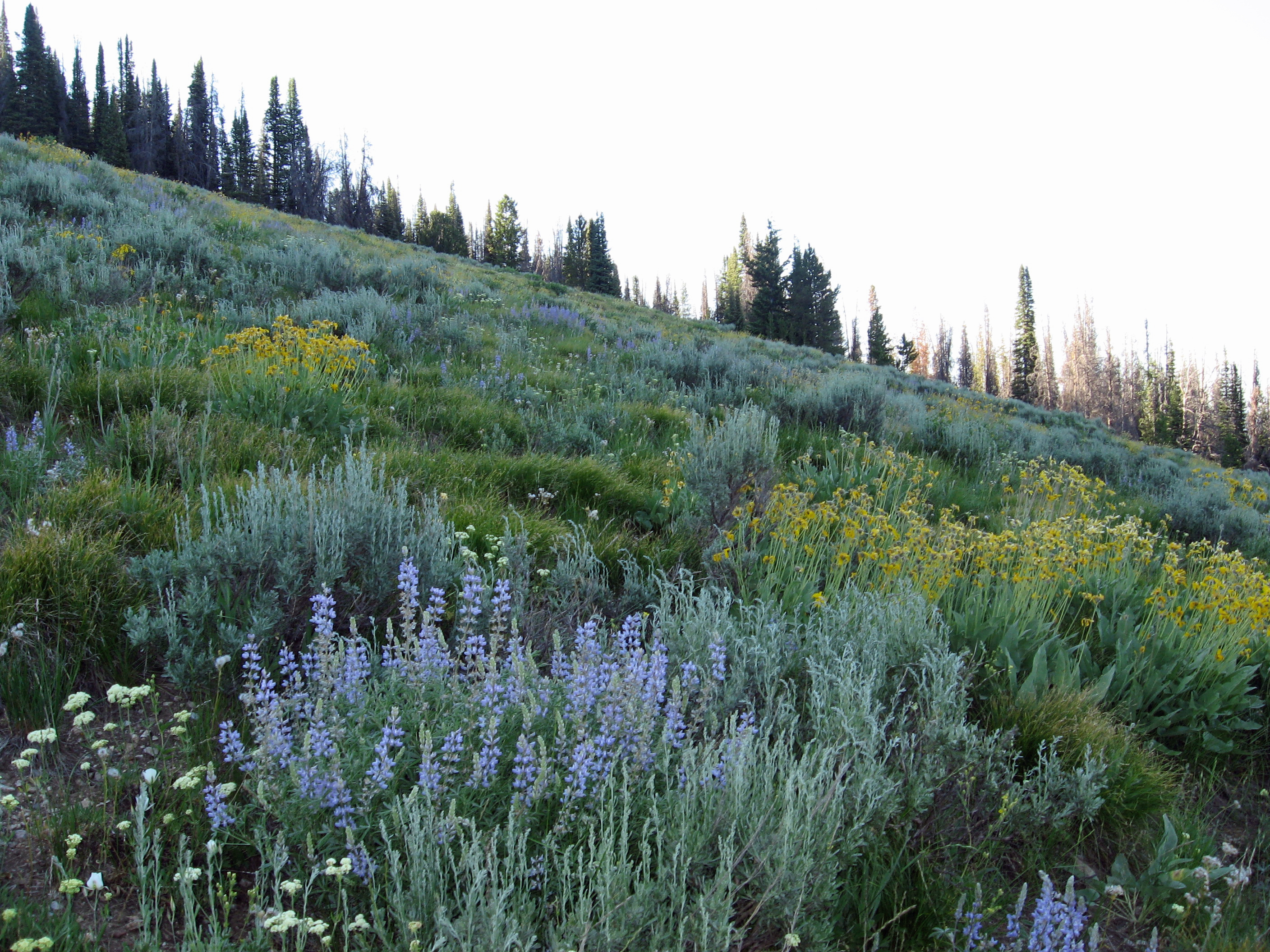 Wildflowers below Williams Peak in the Sawtooth Mountains of Sawtooth National Recreation Area, Idaho